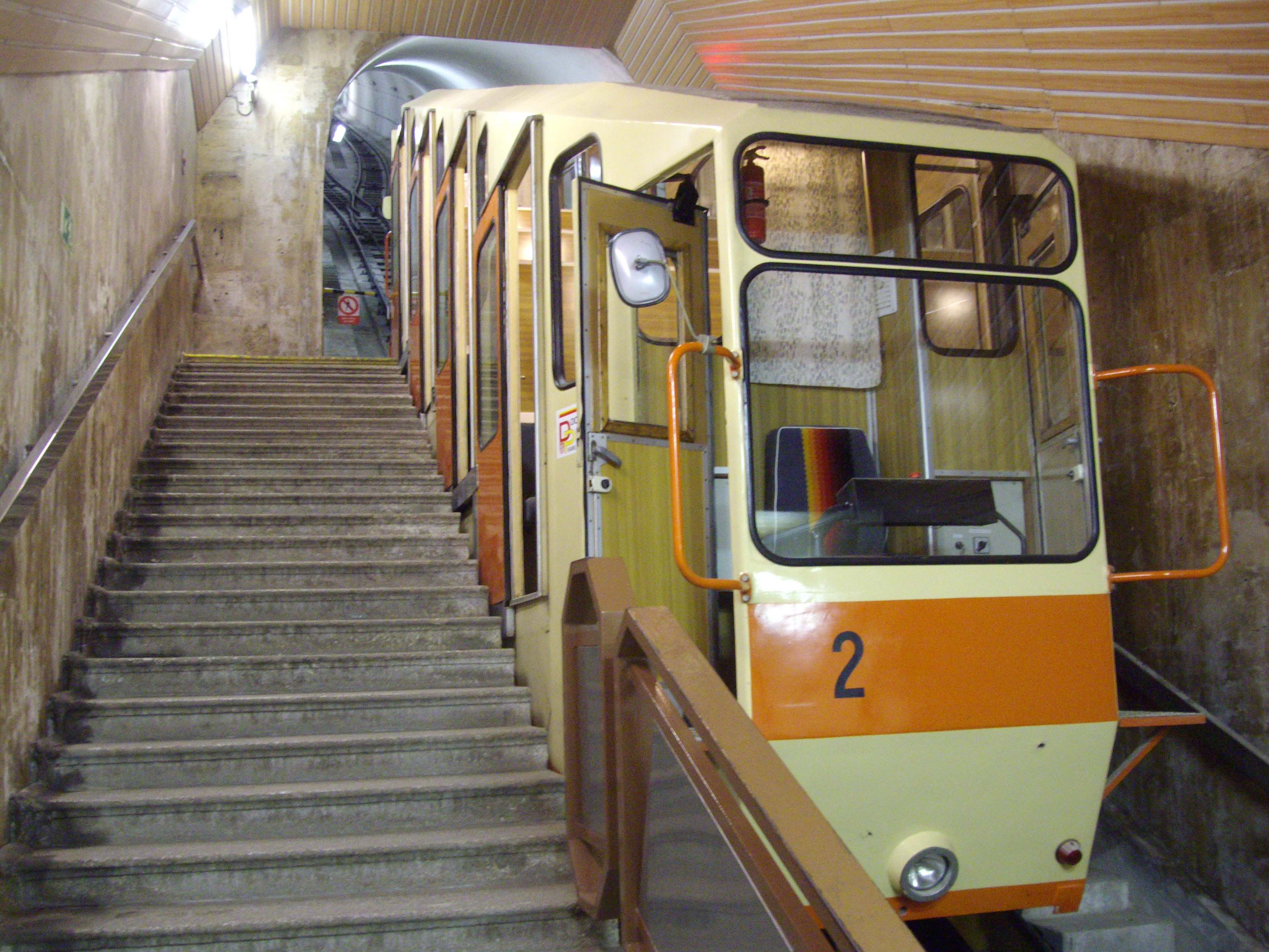 Karlovy Vary - Imperial Hotel Funicular